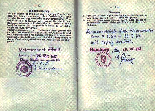 Seaman's book - entry about course at the Nautical School Hamburg-Finkenwerder and sailors letter issued in 1967